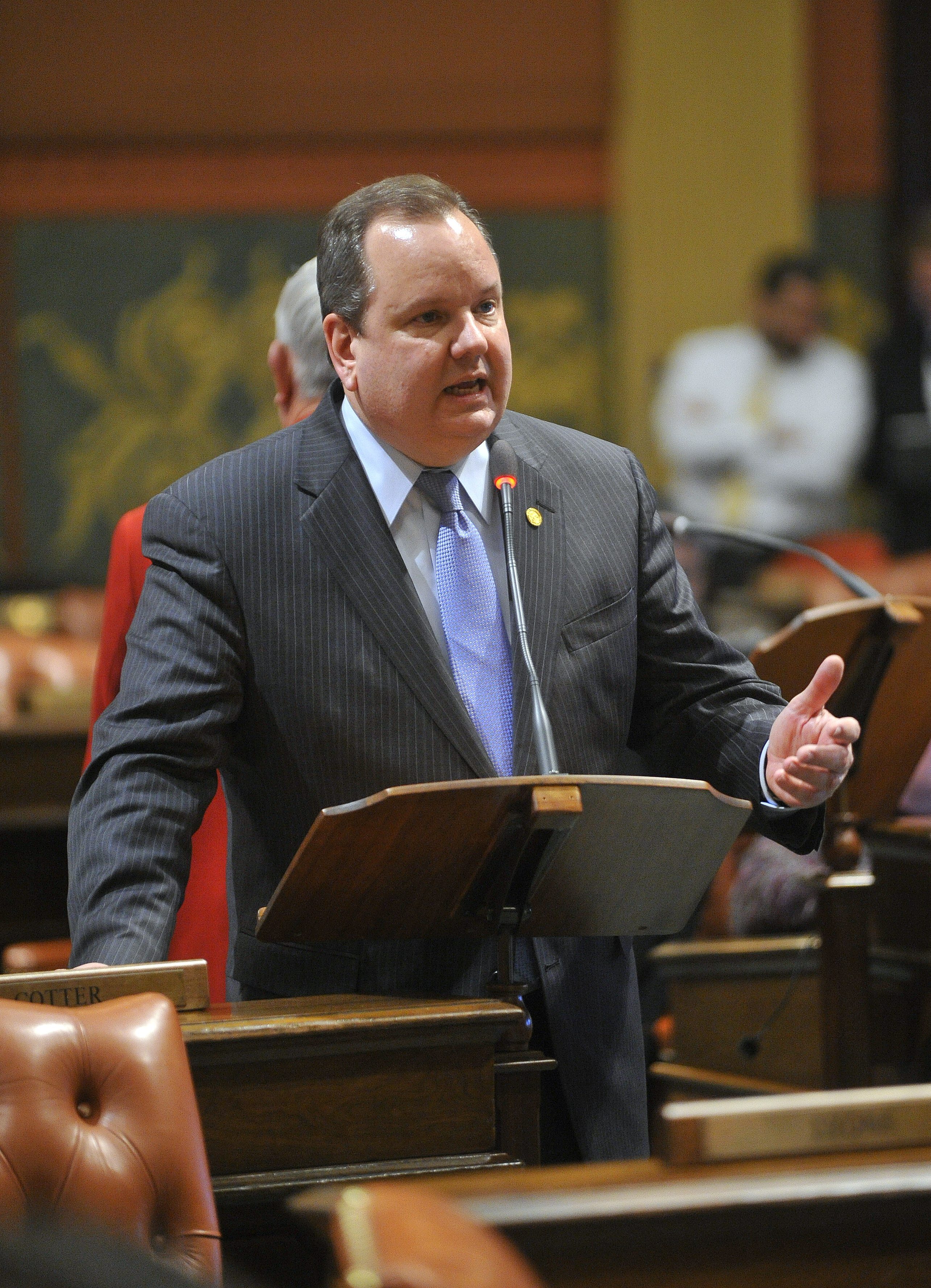 Michigan State Representative Kurt Heise speaking about human trafficking.